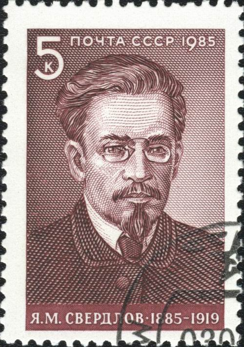 А Soviet Union stamp, politician of the USSR. Birth Centenary of Ya.M.Sverdlov. Date of issue: 3rd June 1985. Designer: V. Nikitin. Michel catalogue number: 5512. 5 K. purple-brown and brown-lake. Portrait of Communist Party leader Ya.M. Sverdlov (1885-1919).